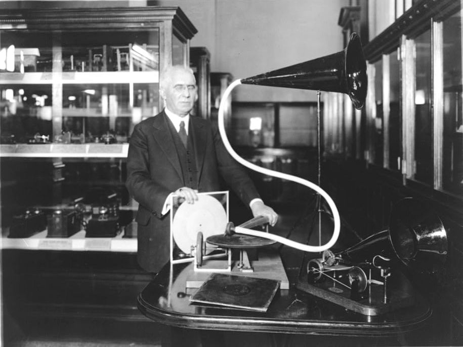 Emile Berliner, with the model of the first phonograph machine which he invented.